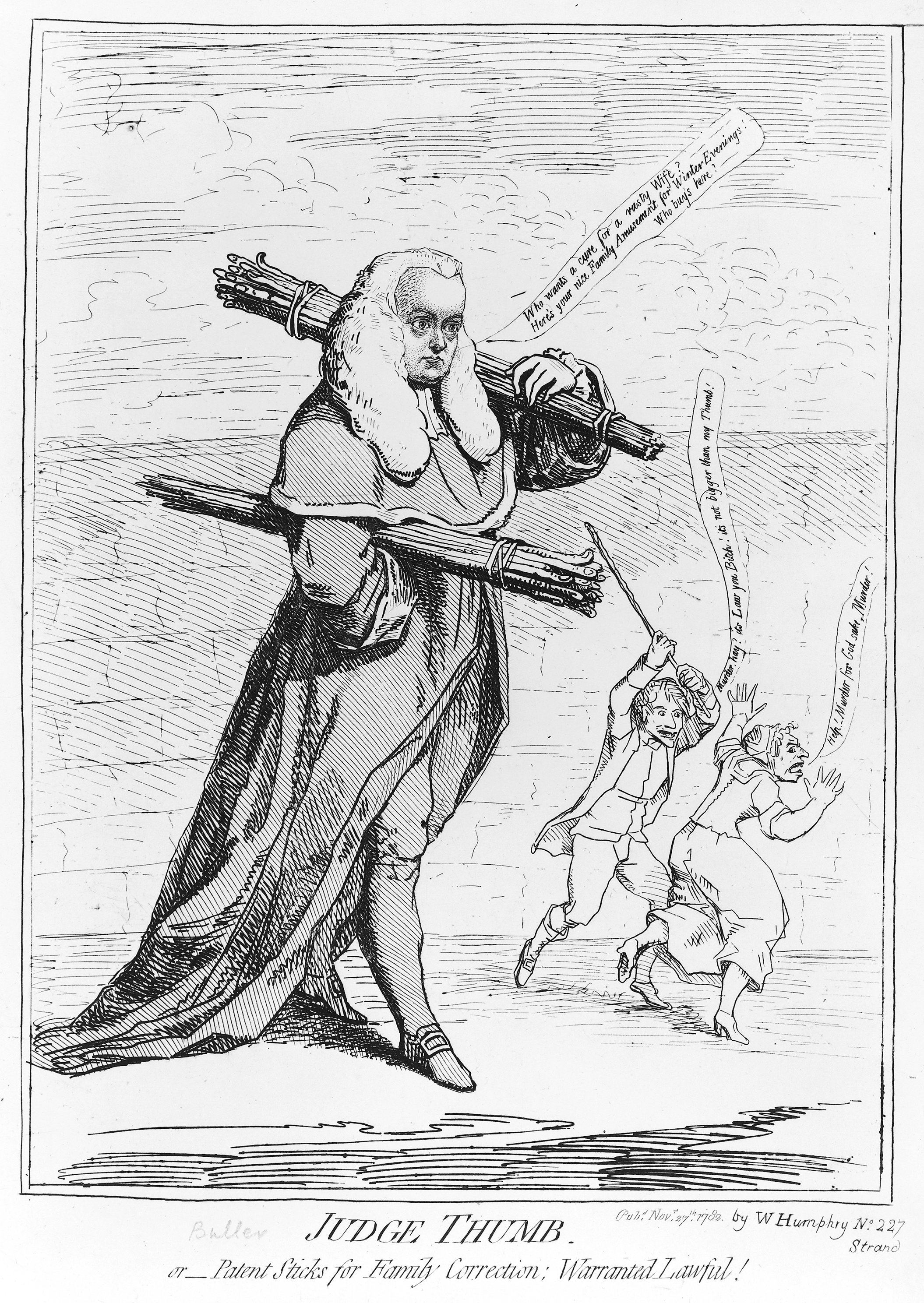 "JUDGE THUMB. or -- Patent Sticks for Family Correction: Warranted Lawful!", a 1782 caricature by James Gillray. Judge Thumb, carrying two bundles of sticks, one on his shoulder like a Roman magistrate with the fasces, says: "Who wants a cure for a nasty Wife? Here's your nice Family Amusement for Winter Evenings! Who buys here?" Woman says: "Help! Murder, for God sake, Murder!" Man says: "Murder, hey? it's Law, you Bitch: it's not bigger than my Thumb!" Bibligraphic information at LoC site: TITLE: Judge Thumb, or - patent sticks for family correction: warranted lawful! CALL NUMBER: PC 1 - 6123 (A size) [P&P] REPRODUCTION NUMBER: LC-USZ62-114396 (b&w film copy neg.) No known restrictions on publication. SUMMARY: Judge Buller walking in foreground, carrying bundles of rods; in the background, a man with a rod raised over his head is about to strike a woman who is running away from him. MEDIUM: 1 print : etching. CREATED/PUBLISHED: [London] : pubd. by H. Humphrey, 1782 Nov. 27th. CREATOR: Gillray, James, 1756-1815, artist. SUBJECTS: Buller, Francis, 1746-1800. Family violence--England--1780-1790. FORMAT: Cartoons British 1780-1790. Etchings British 1780-1790. DIGITAL ID: (b&w film copy neg.) cph 3c14396 CARD #: 95508959 Source: Library of Congress Prints and Photographs Division Washington, D.C. 20540 USA